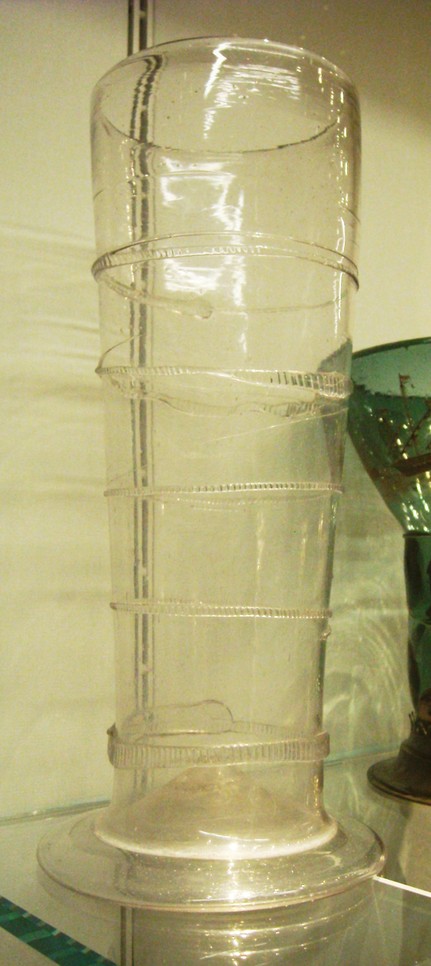 A 17th century German passglas (a drinking glass with graduations for use in drinking games) on display in The Higgins museum and gallery, Bedford.